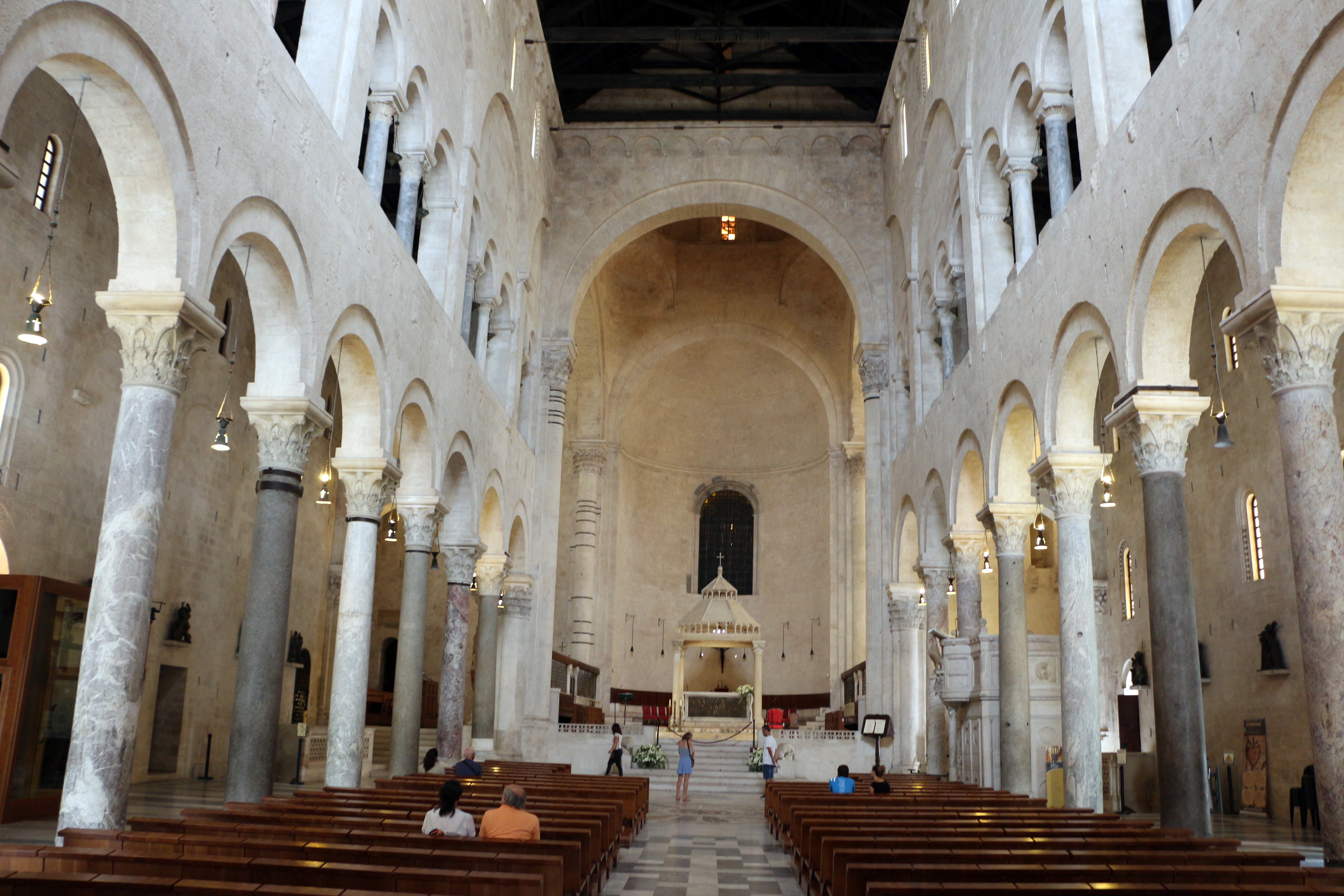 Cathedral (Bari)